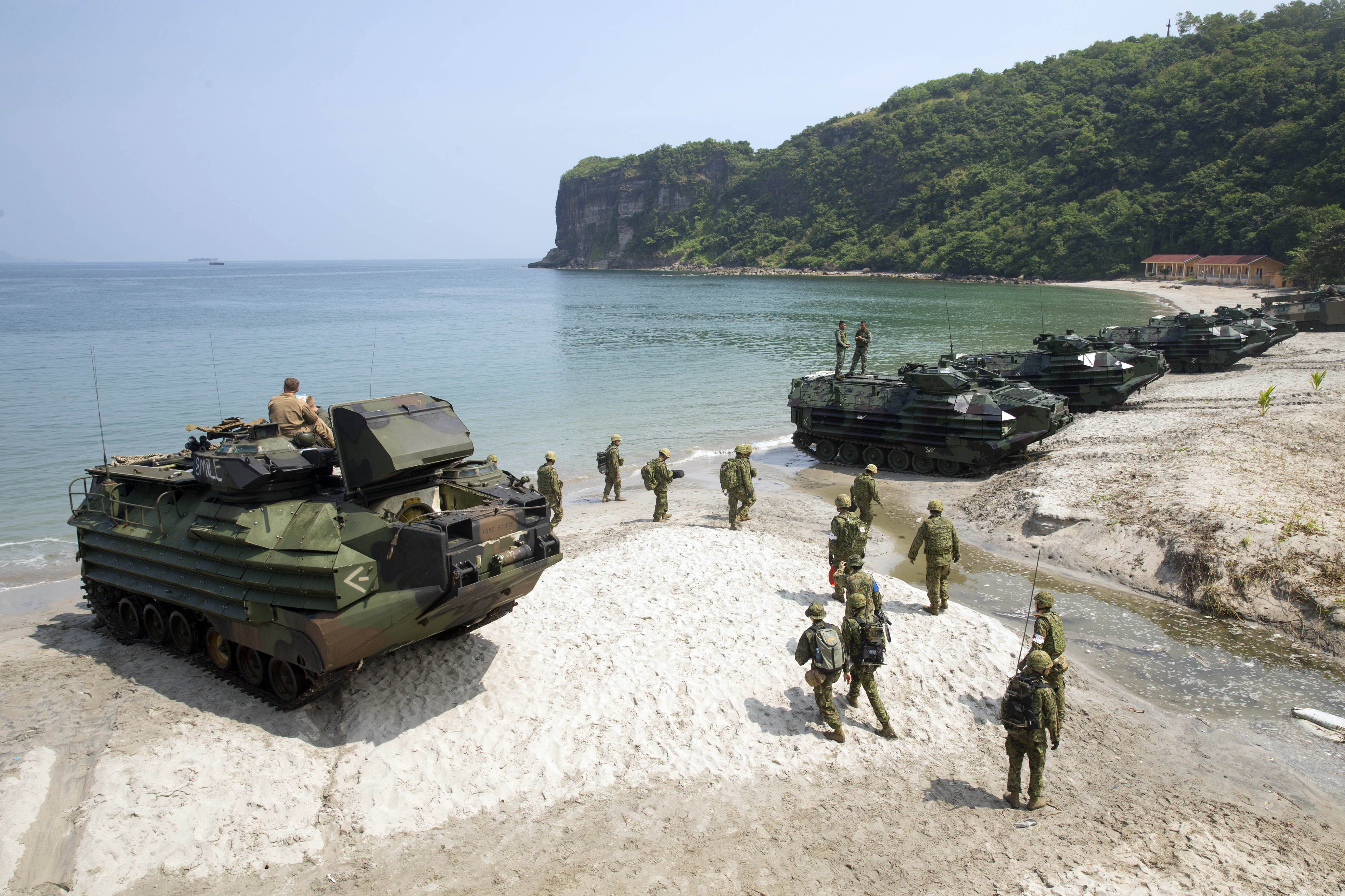 U.S. Marine, Philippine Marine and Japan Ground Self-Defense Force members assault amphibious vehicles line up along the shore following an amphibious exercise as part of KAMANDAG 3 at Katungkulan Beach, Marine Barracks Gregorio Lim, Philippines, Oct. 12, 2019. KAMANDAG helps participating forces maintain a high level of readiness and responsiveness, and enhances combined military-to-military relations, interoperability, and multinational coordination. KAMANDAG is an acronym for the Filipino phrase“Kaagapay Ng Mga Manirigma Ng Dagat,” which translates to “Cooperation of the Warriors of the Sea,” highlighting the partnership between the U.S. and Philippine militaries. (U.S. Marine Corps photo by Cpl. Harrison Rakhshani)